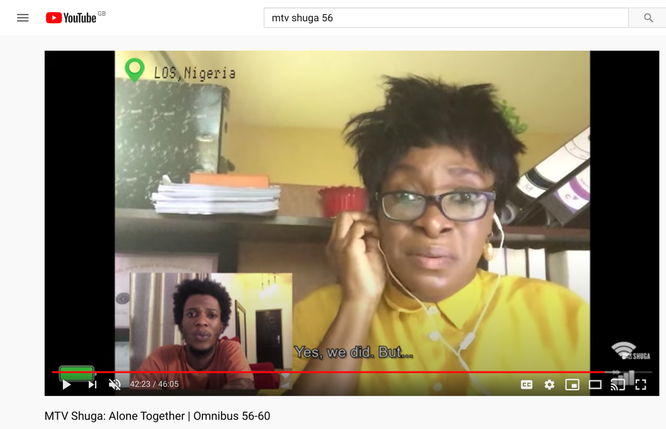 Funlola Aofiyebi as Mrs Olutu in MTV Shuga in 2020